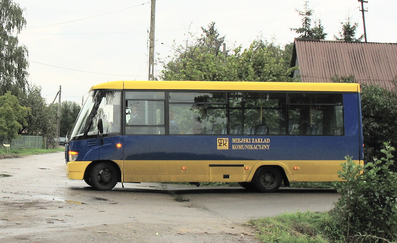 Jelcz M081MB Vero bus (#651, #652 or #653) with Mercedes-Benz Vario chassis in Pabianice, Łódź Voivodeship, Poland. Built 2006, MZK Pabianice operator.